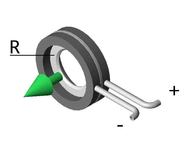 Orifice metering flange